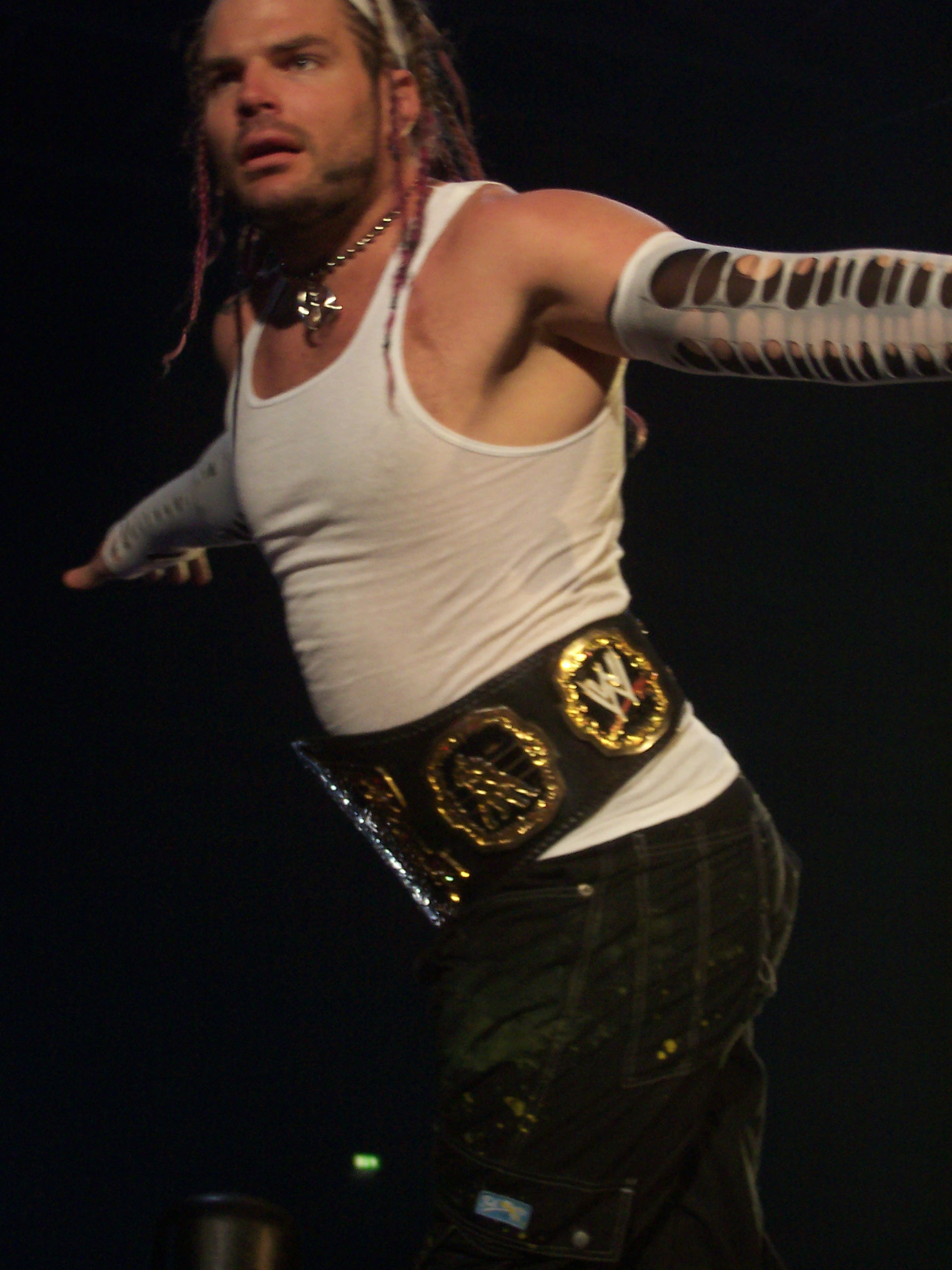 Jeff Hardy 2007 in Bremen